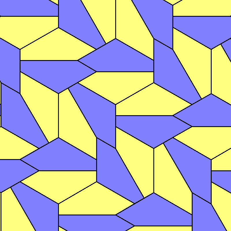 Monohedral convex pentagonal tiling, 2-isohedrally colored, by permission from